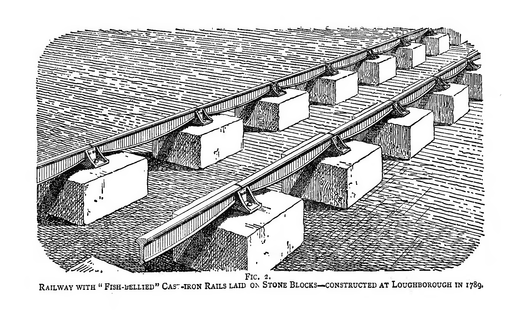 Fig. 2 Railway with "Fish-bellied" Cast-iron Rails laid on Stone Blocks